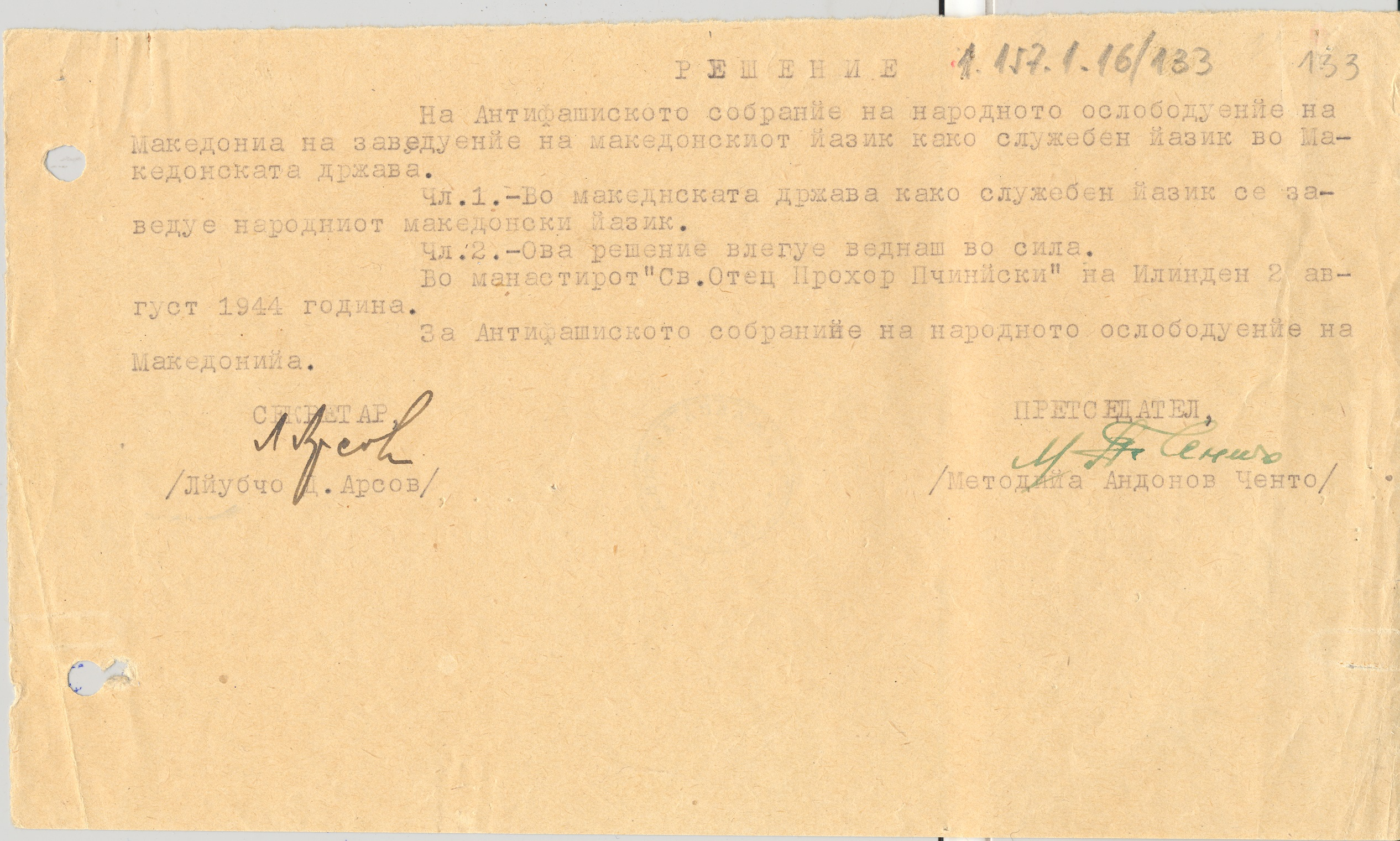 Decision about language on ASNOM This media file is produced by Wikipedian in Residence in Category:Wikipedian in Residence at DARM in 2016.